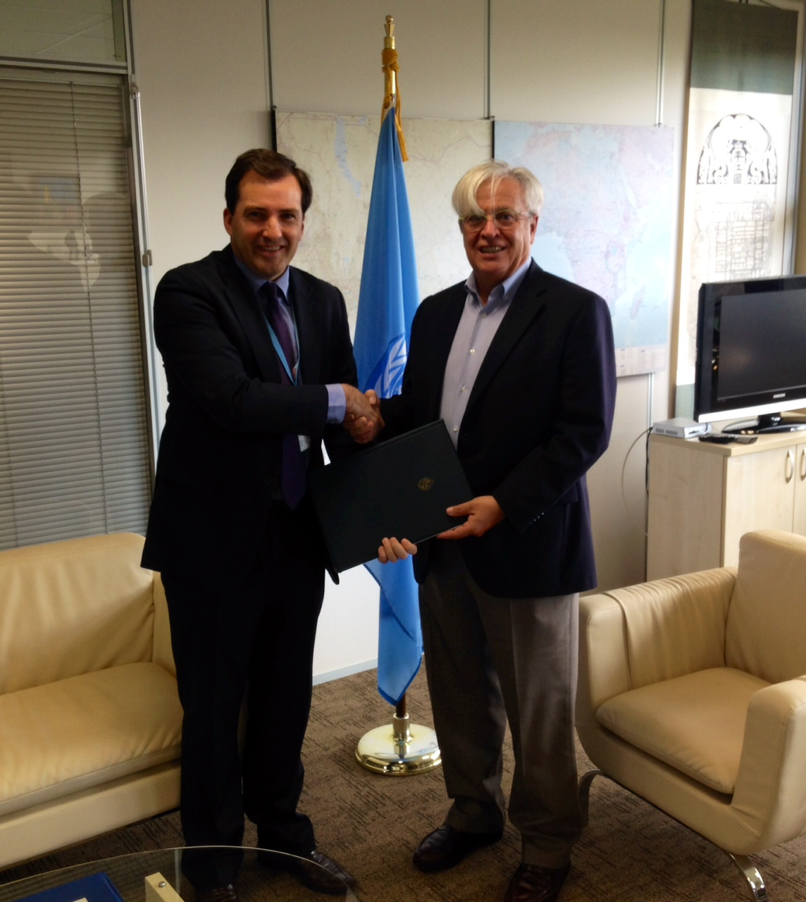 Fernando Lugris and Joan Clos, Executive Director of ONU-Habitat